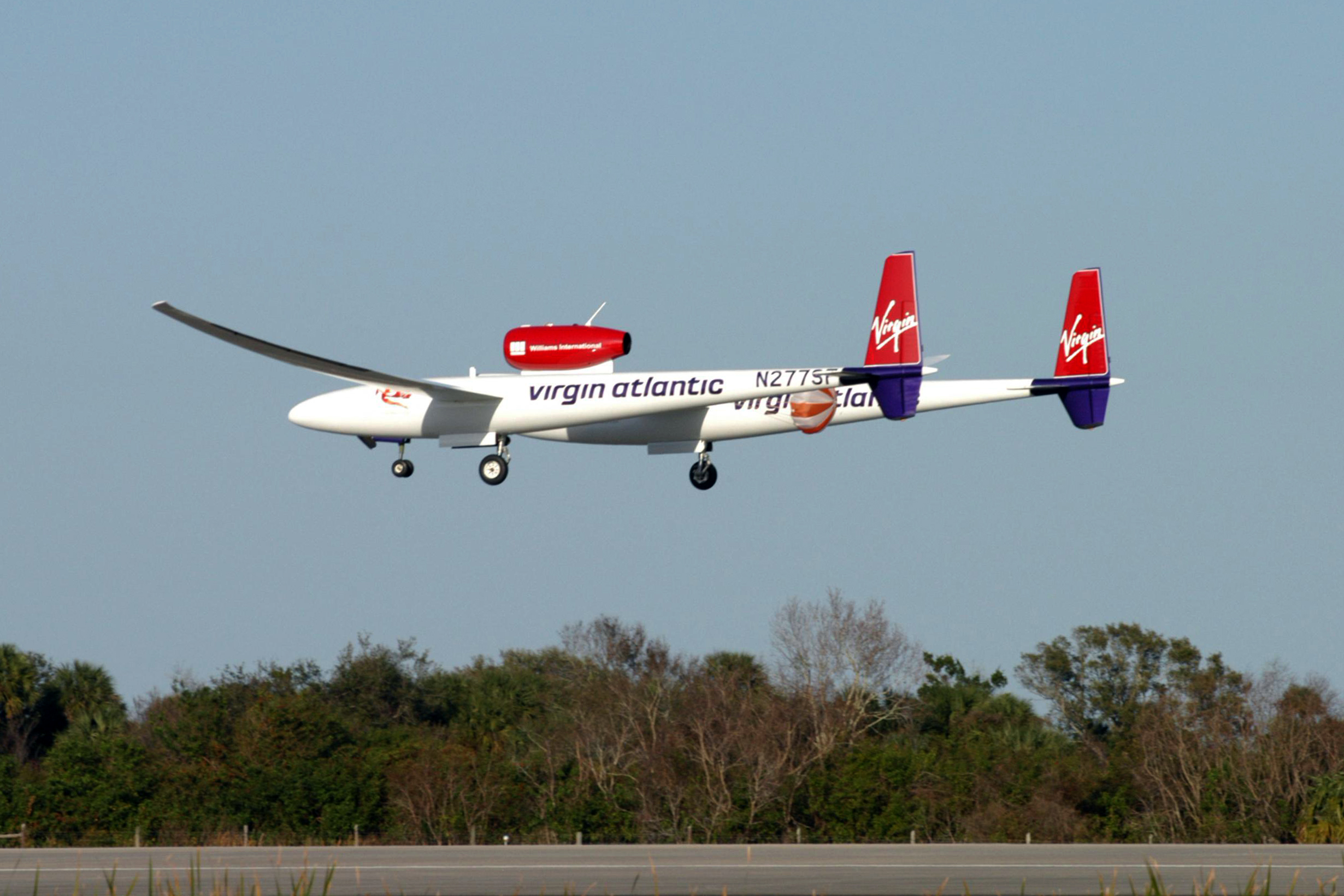 KENNEDY SPACE CENTER, FLA. - The Virgin Atlantic Airways GlobalFlyer aircraft approaches NASA Kennedy Space Center’s Shuttle Landing Facility for a landing. The aircraft, piloted by Steve Fossett, is being relocated from Salina, Kan., to the Shuttle Landing Facility to begin preparations for an attempt to set a new world record for the longest flight made by any aircraft. An exact takeoff date for the record-setting flight has not been determined and is contingent on weather and jet-stream conditions. The window for the attempt opens in mid-January, making the flight possible anytime between then and the end of February. NASA agreed to let Virgin Atlantic Airways use Kennedy's Shuttle Landing Facility as a takeoff site. The facility use is part of a pilot program to expand runway access for non-NASA activities.